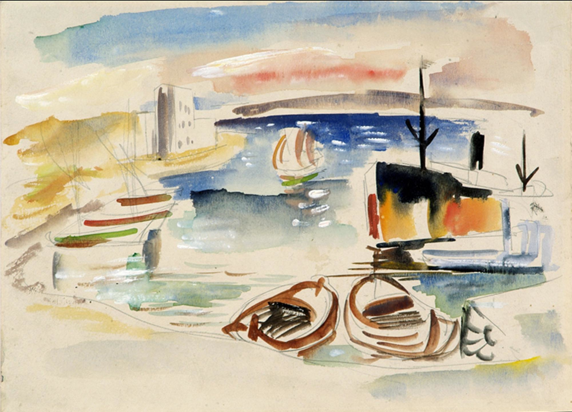 Small harbour